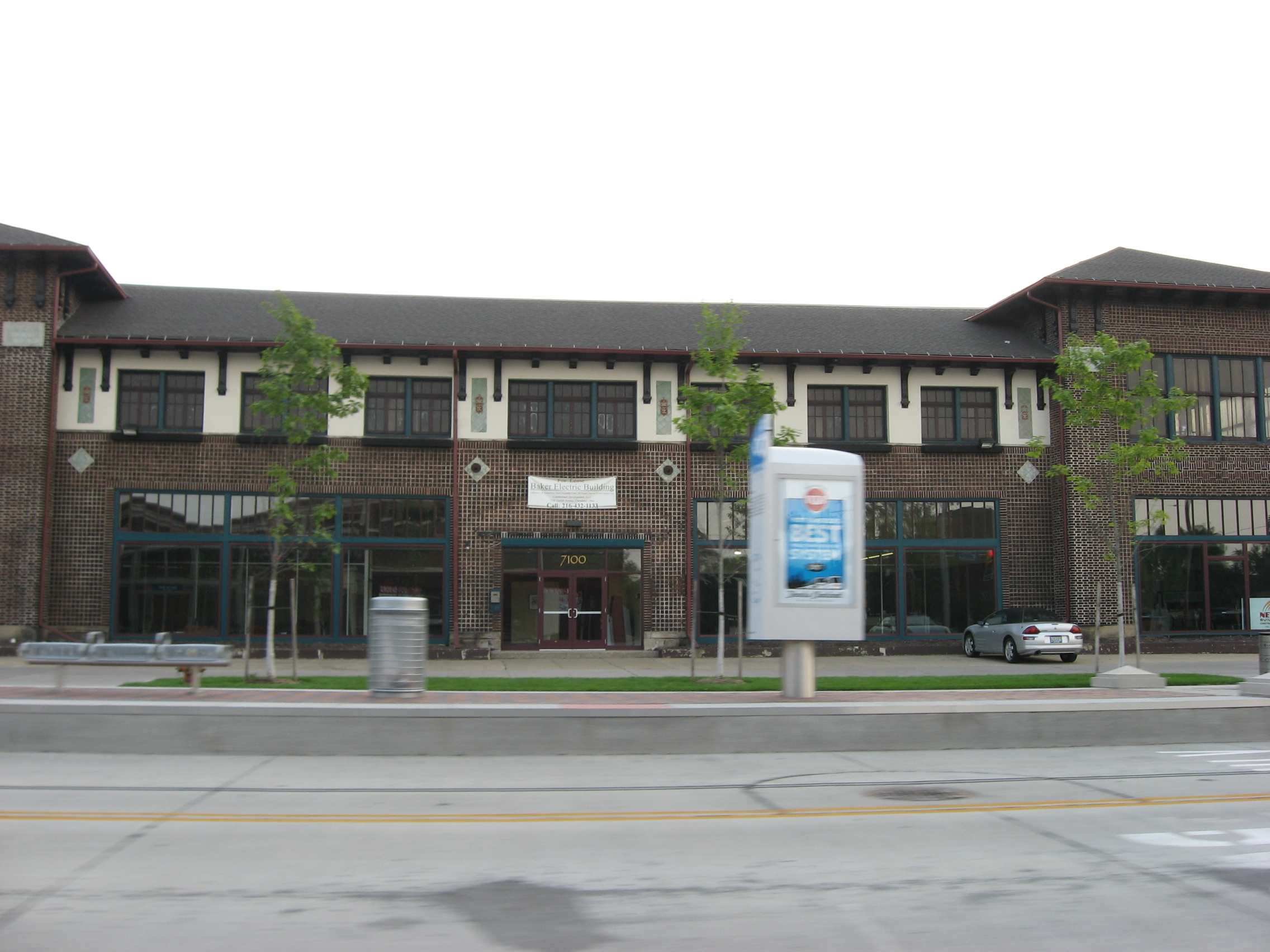 View of the Baker Electric Building, a former automobile showroom in Cleveland, Ohio, United States. Located at 7100 Euclid Avenue, the onetime electric car showroom and service facility is listed on the National Register of Historic Places as the "Baker Motor Vehicle Company Building."